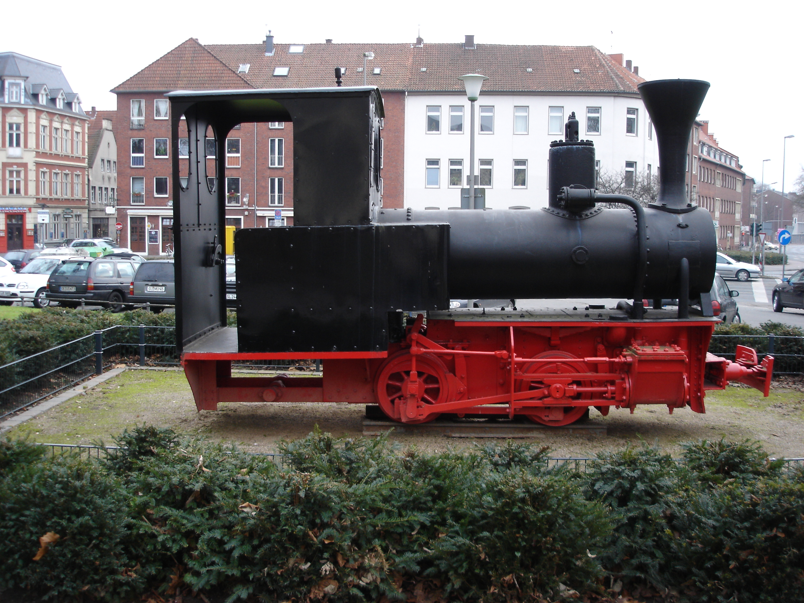 A locomotive used during the clearing of ruins after WW 2 in Münster, Westphalia, Germany